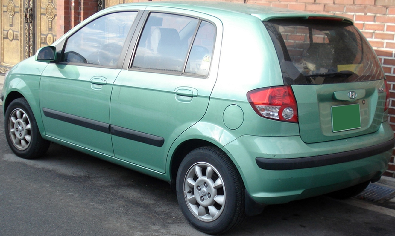 Hyundai Click